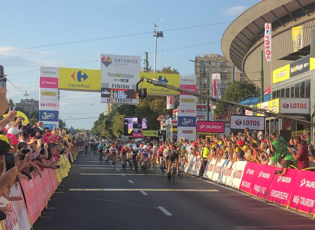 TdP2019 stage 2 peleton finish